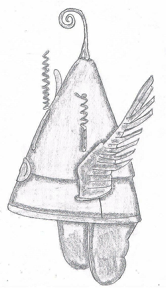 Italian Pilos Helmet